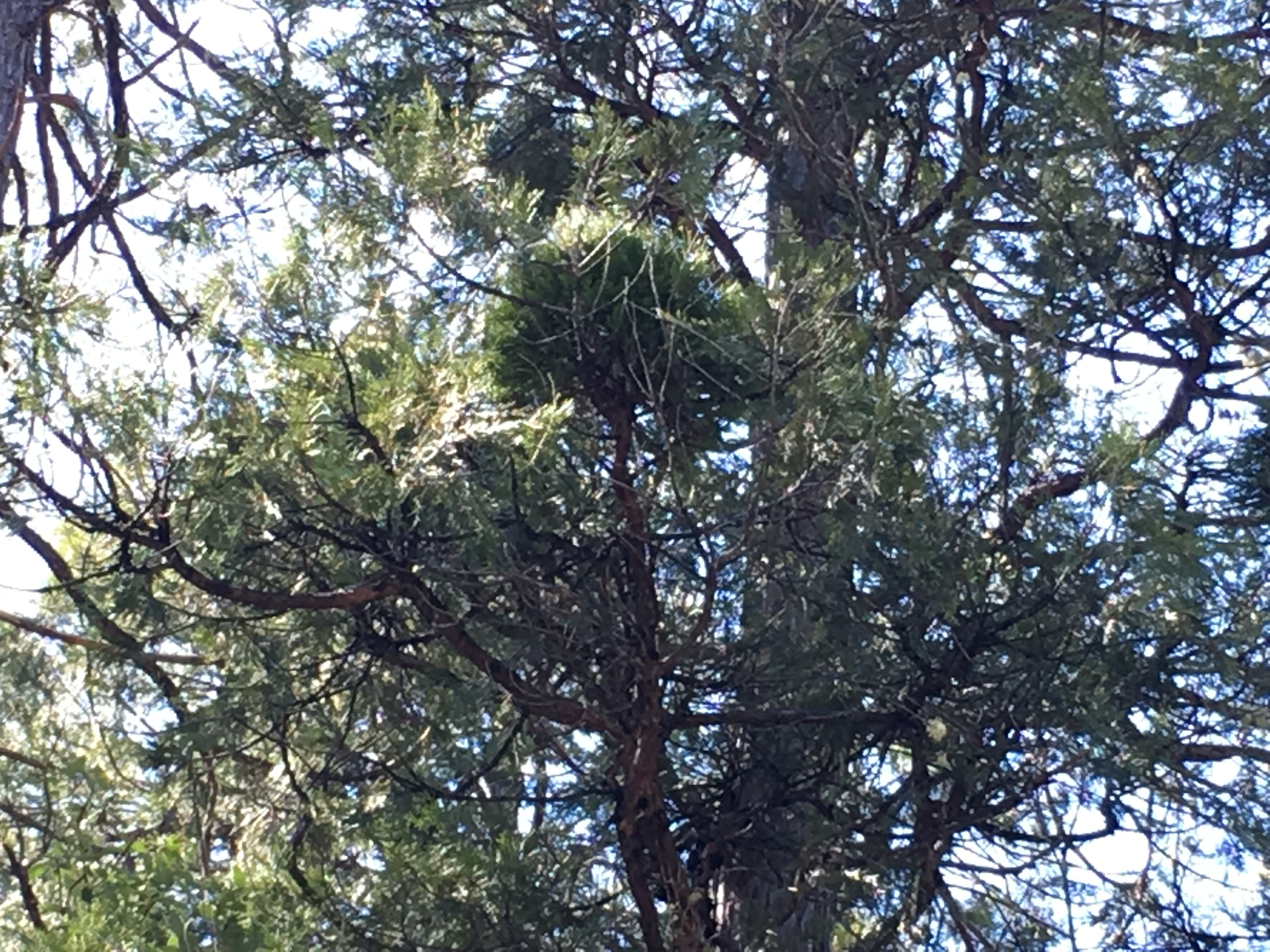 Gymnosporangium libocedri Flickr description Pest: Incense Cedar Broom Rust, Gymnosporangium libocedri Host: Calocedrus decurrens Forest type: Mixed Conifer Forest Location: Burnt Ranch Campground Elevation: 1339 feet